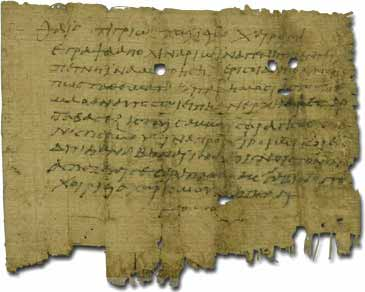 A private letter on papyrus from Oxyrhynchus, written in a Greek hand of the second century AD (Oxyrhynchus papyrus 932, (1914.21.0010), now kept in the Spurlock Museum at the University of Illinois). For an English translation and description of the papyrus, see this page. For a transcription of the Greek, see this page (from the Duke Databank of Documentary Papyri). For a larger photograph, click here.